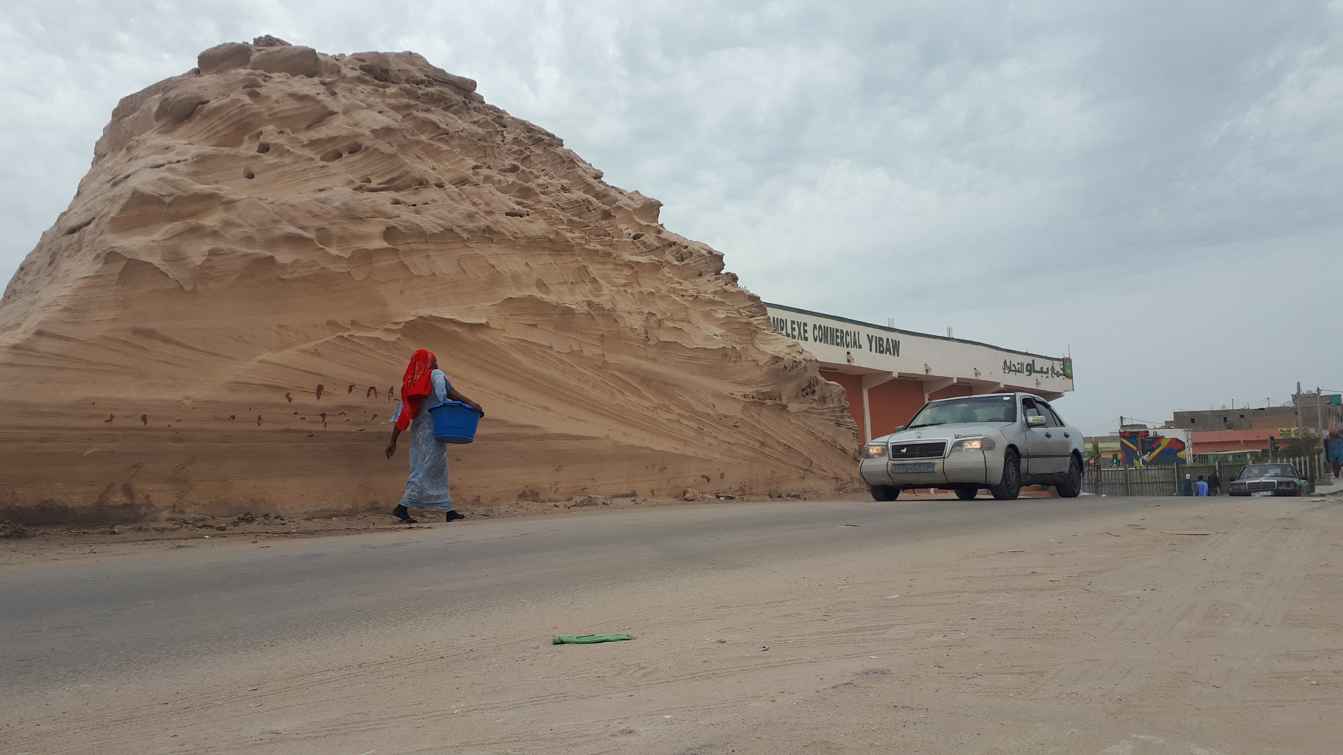 This is an image with the theme "Africa on the Move or Transport" from: Mauritania